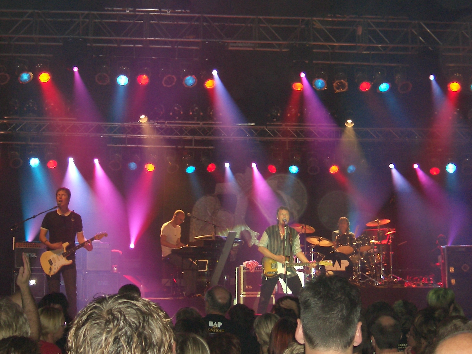 Concert german rock band "BAP" in Rheinau-Freistett/Germany